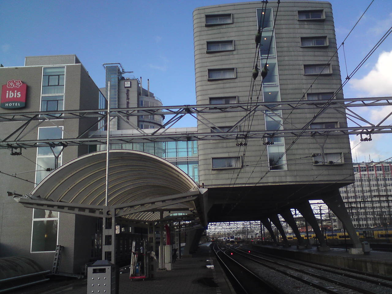 Hotel Ibis in Amsterdam. Partly build above two platforms and 4 sets of rails of Amsterdam Central Station.